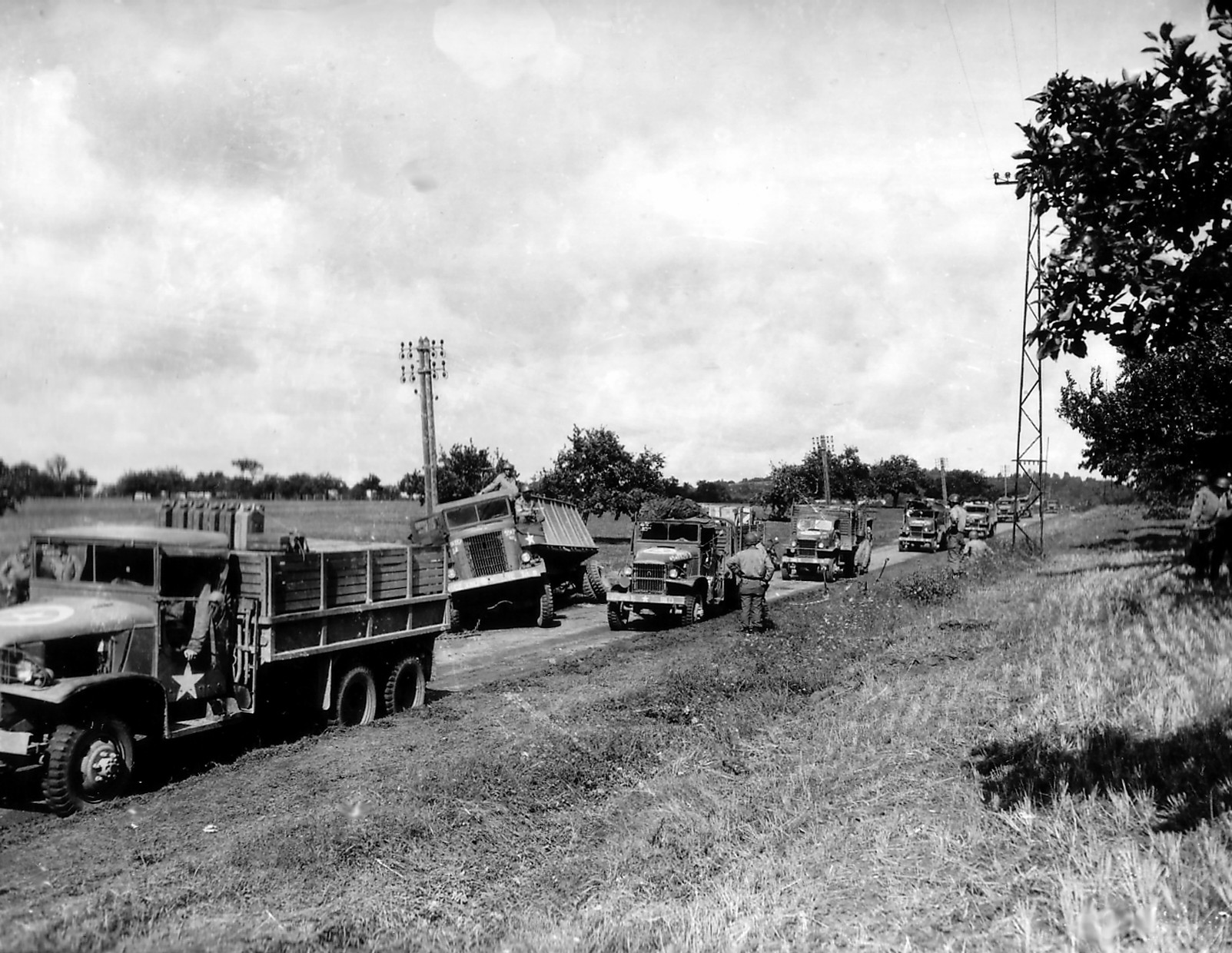 Red Ball Express - Convoy with accidental truck - 1944